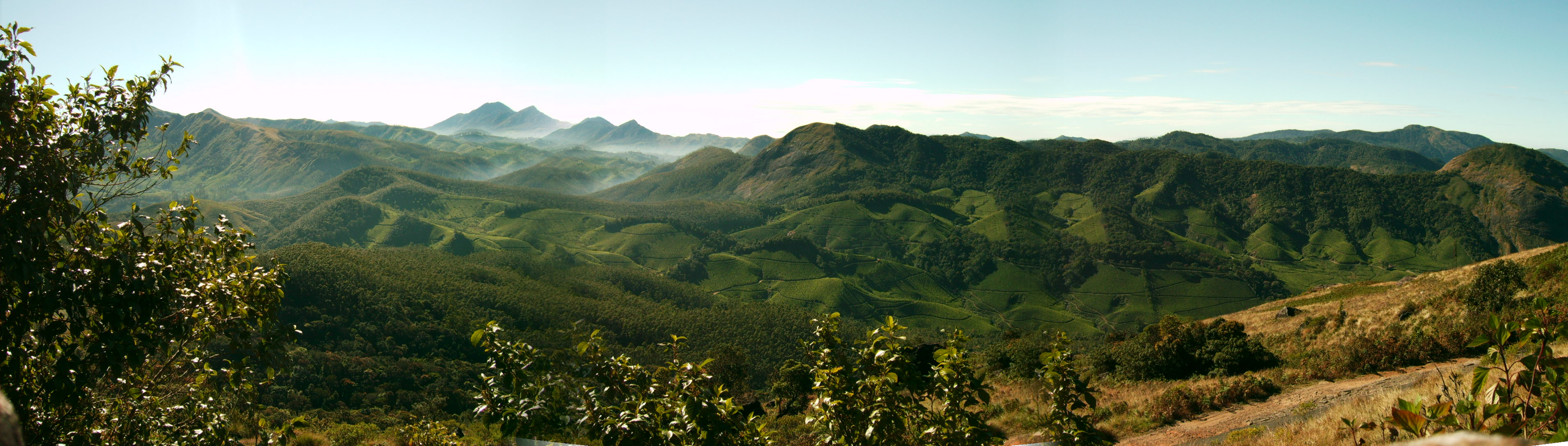 Munnar, Kerala, India.